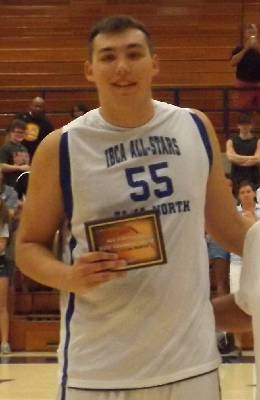 Boys 3A.4A North MVP Cameron Krutwig of Jacobs HS presented by Bob Miller of Niles West HS